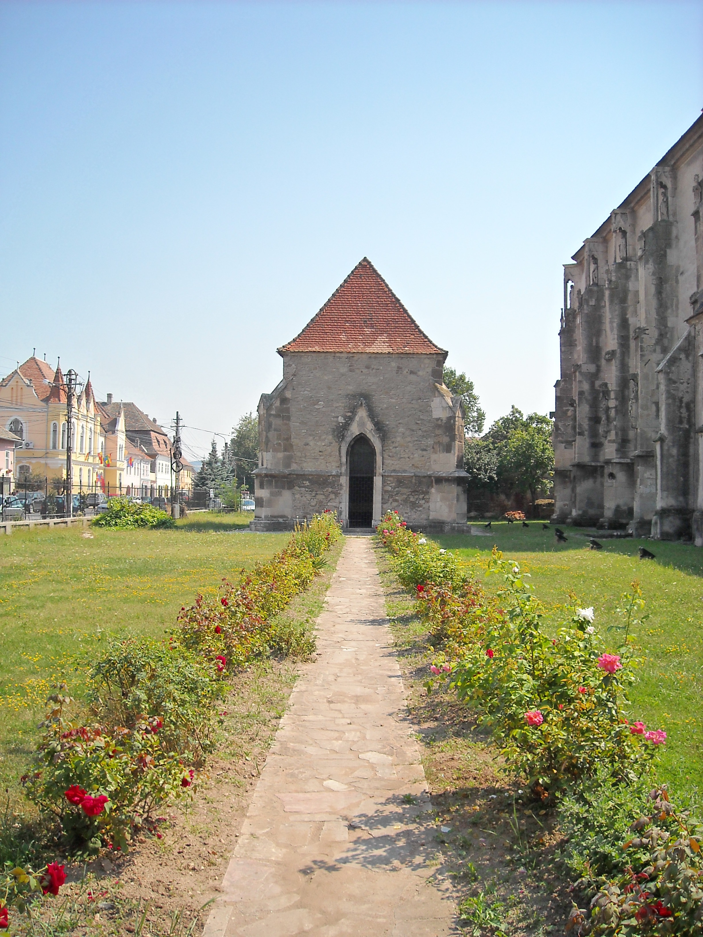 the St. Jacob Chapel (Jakobskapelle) in Sebeş (Mühlbach) 02